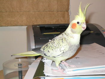 Double Mutation cockatiel (Pied/Pearl)